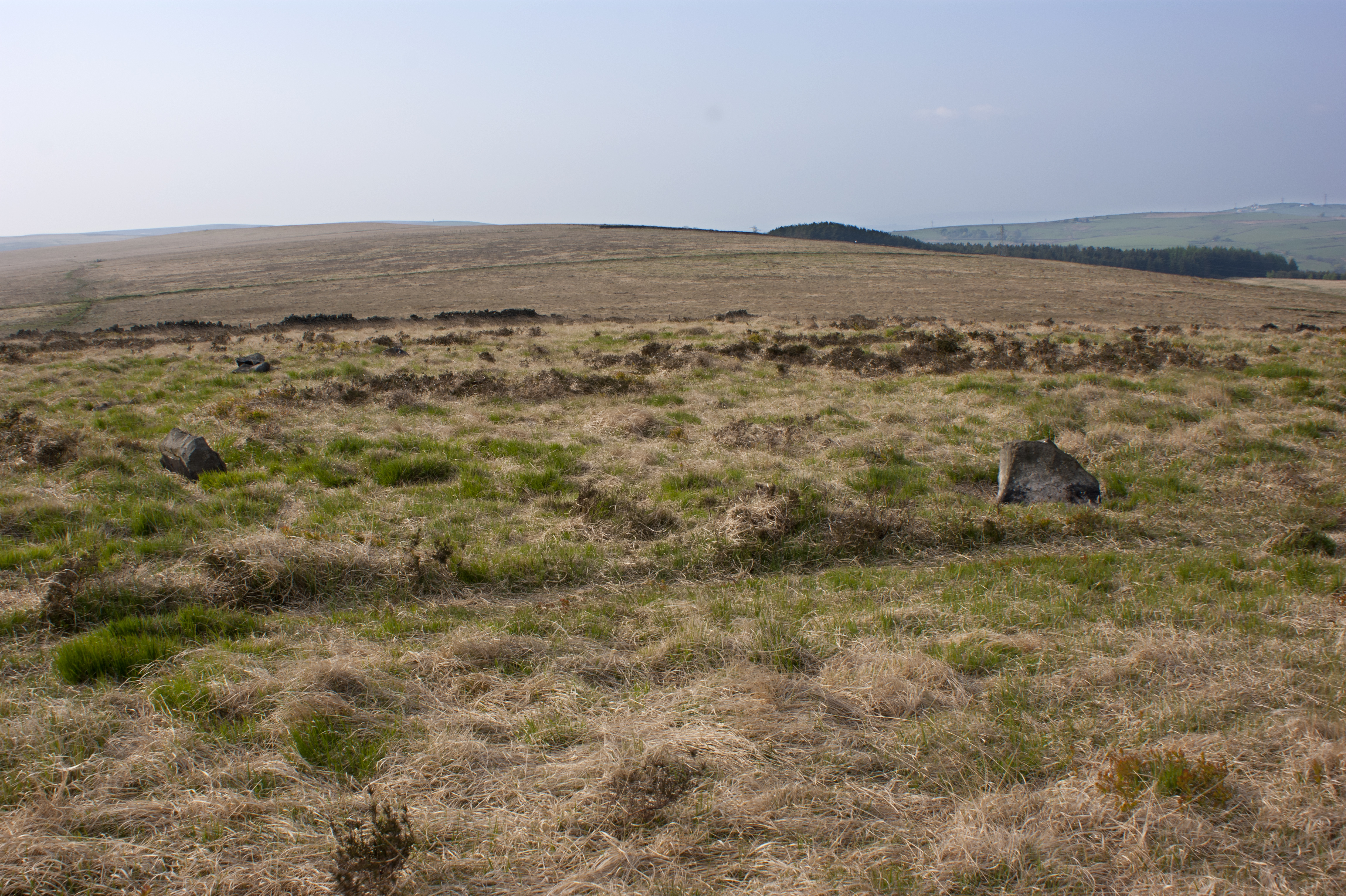 Not the most impressive of stone circles